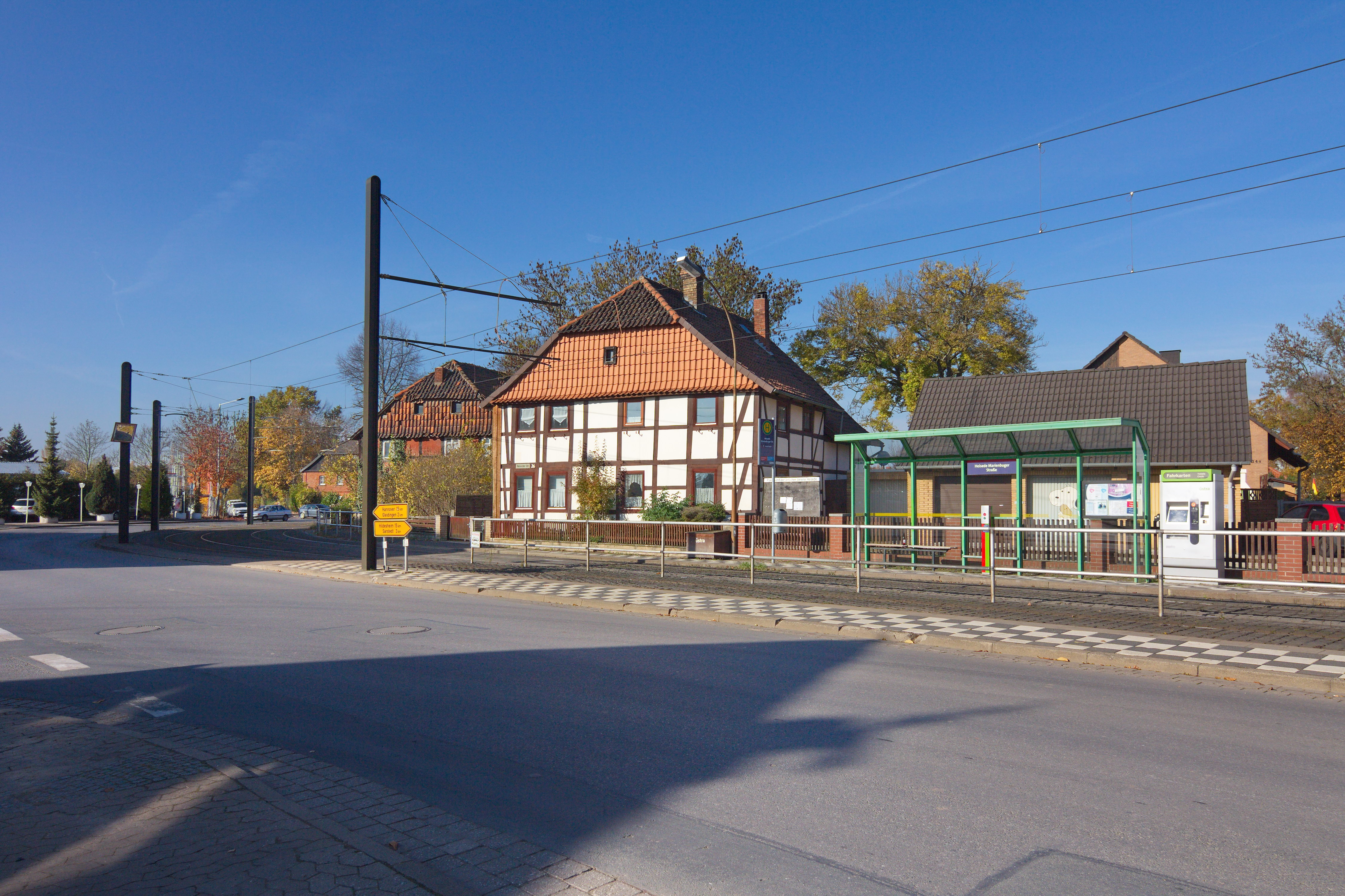 Ortsblick in Heisede (Sarstedt,) Niedersachsen, Deutschland